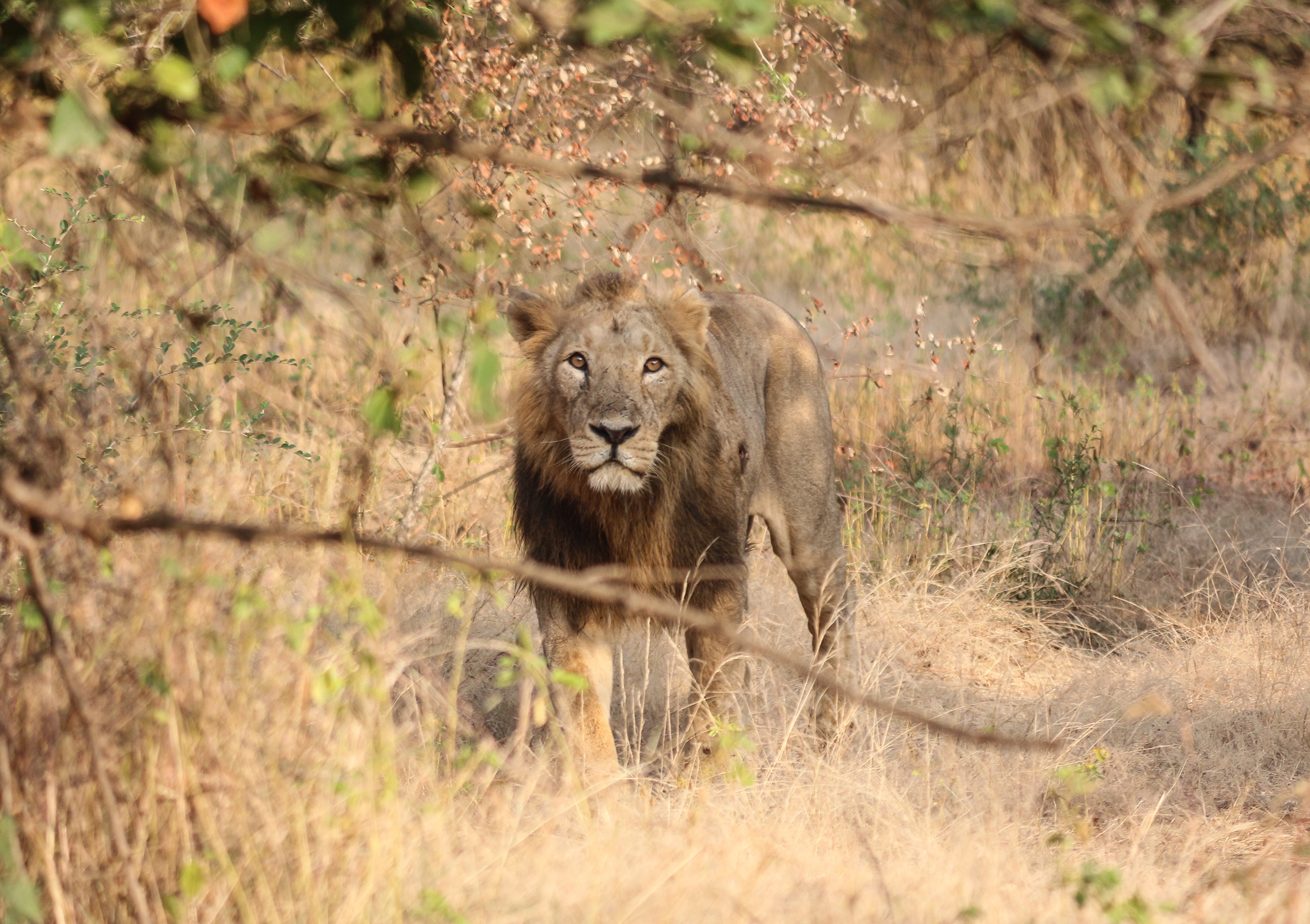 Asiatic lion (Panthera leo persica) in Gir Forest National Park, India